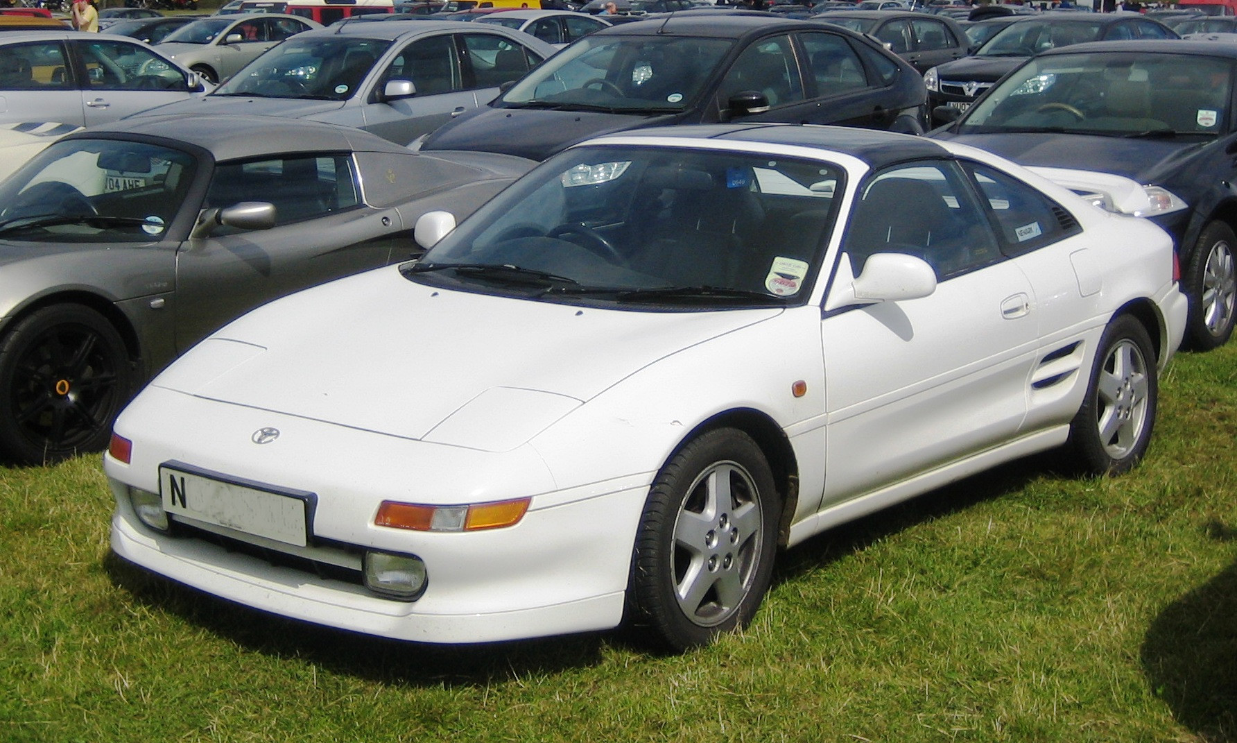 Toyota MR2 SW20 at Snetterton